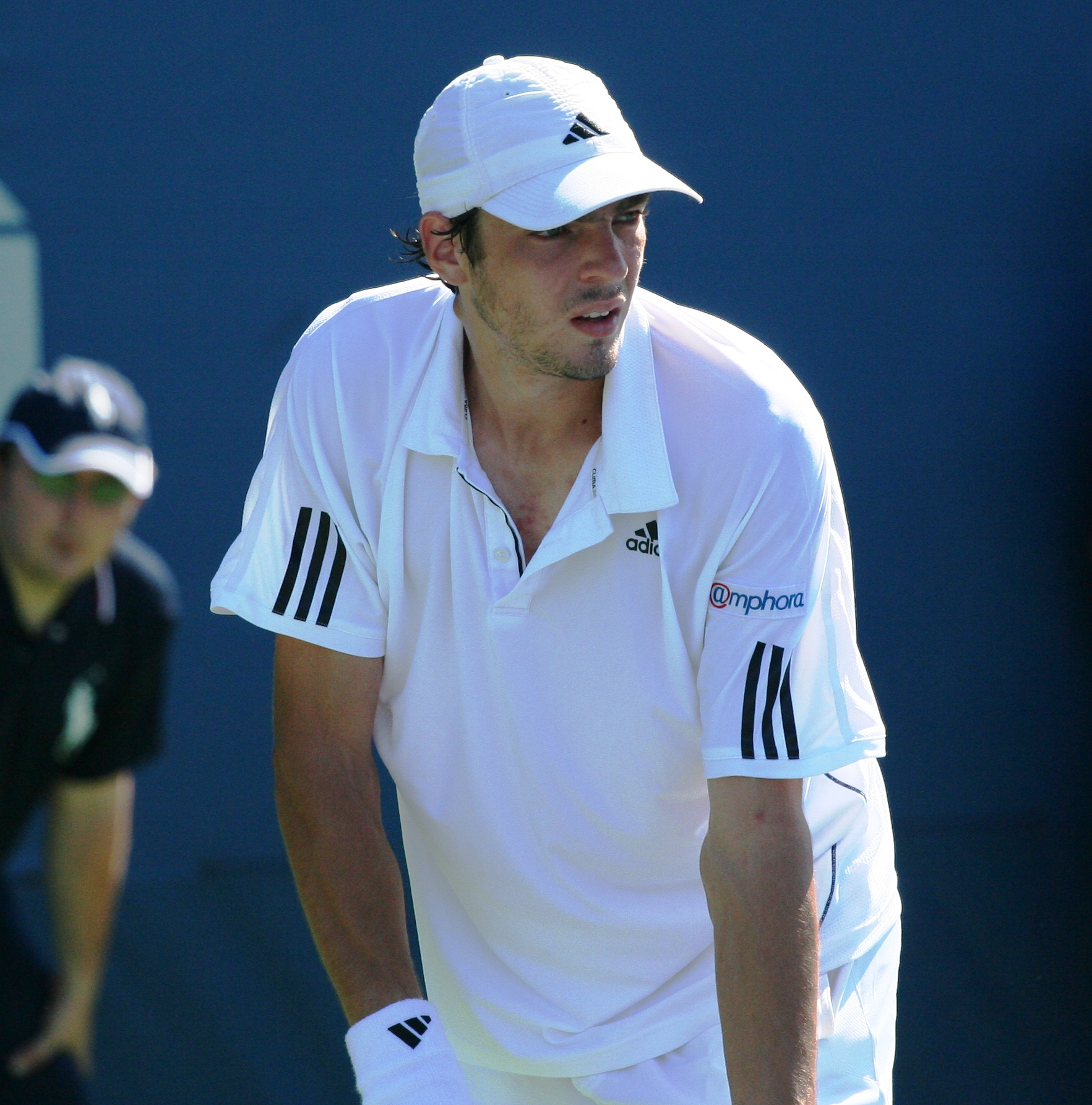 U.S. Open Monday, Aug. 30, 2010